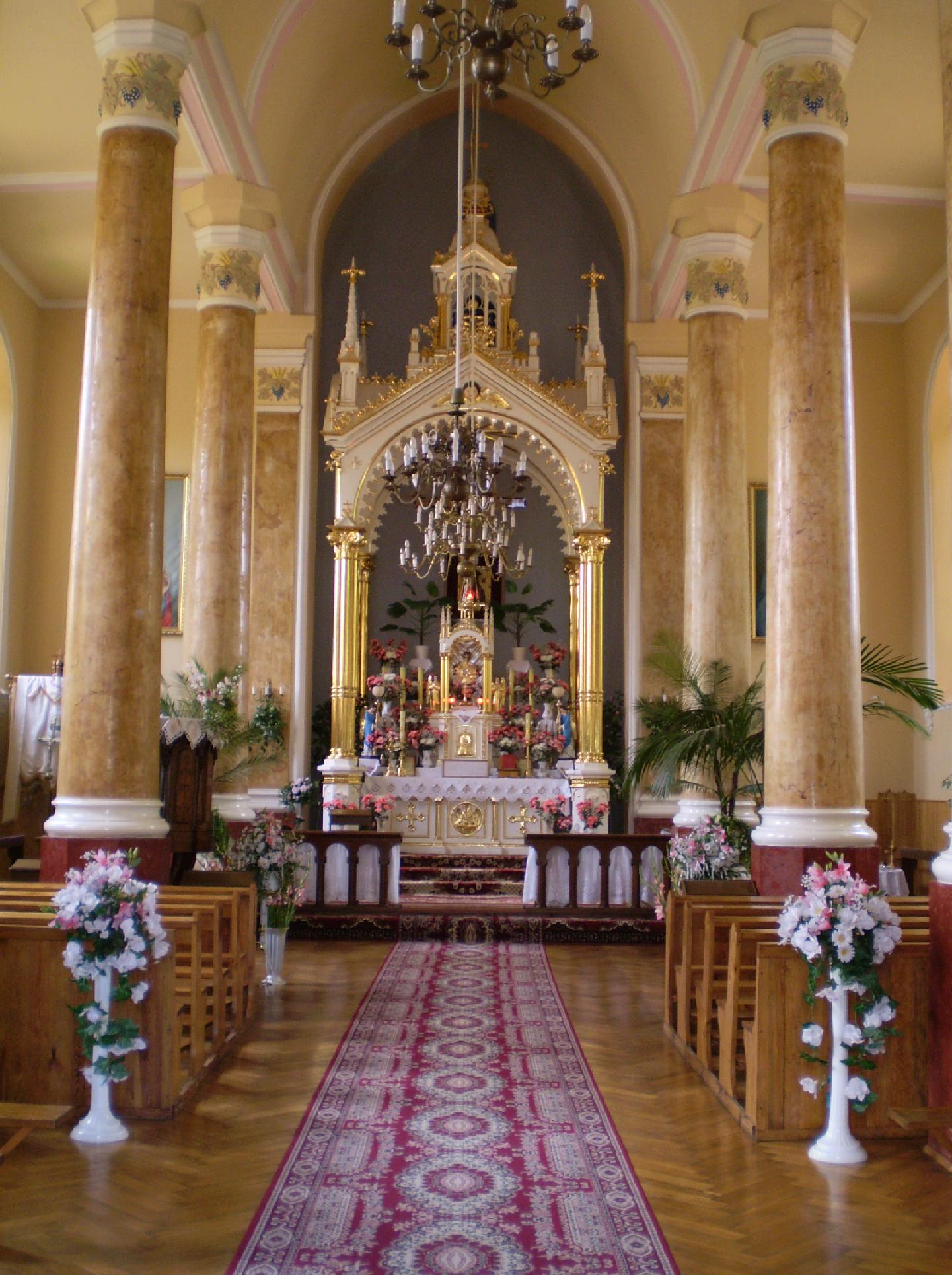 Old Catholic Mariawite Church in Dobra